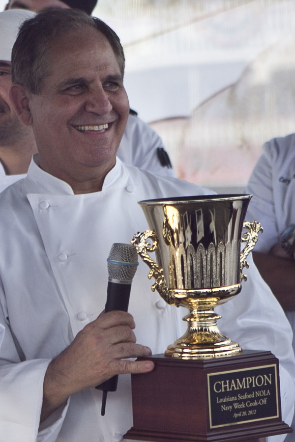 John Folse and John Besh, both award-winning chefs, hold the trophies before presenting them to the winners of the Louisiana Seafood Cook-Off, April 20, 2012. The cook-off was held as part of the War of 1812 Commemoration. New Orleans will serve as the inaugural city in a three-year national celebration commemorating the War of 1812 and the Star-Spangled Banner. The Marine Corps’ role in this event reinforces its naval character, showcases the Navy-Marine Corps team and highlights the military’s enduring relationship with the city of New Orleans. (U.S. Marine Corps photo by Lance Cpl. Marcin Platek/Released)